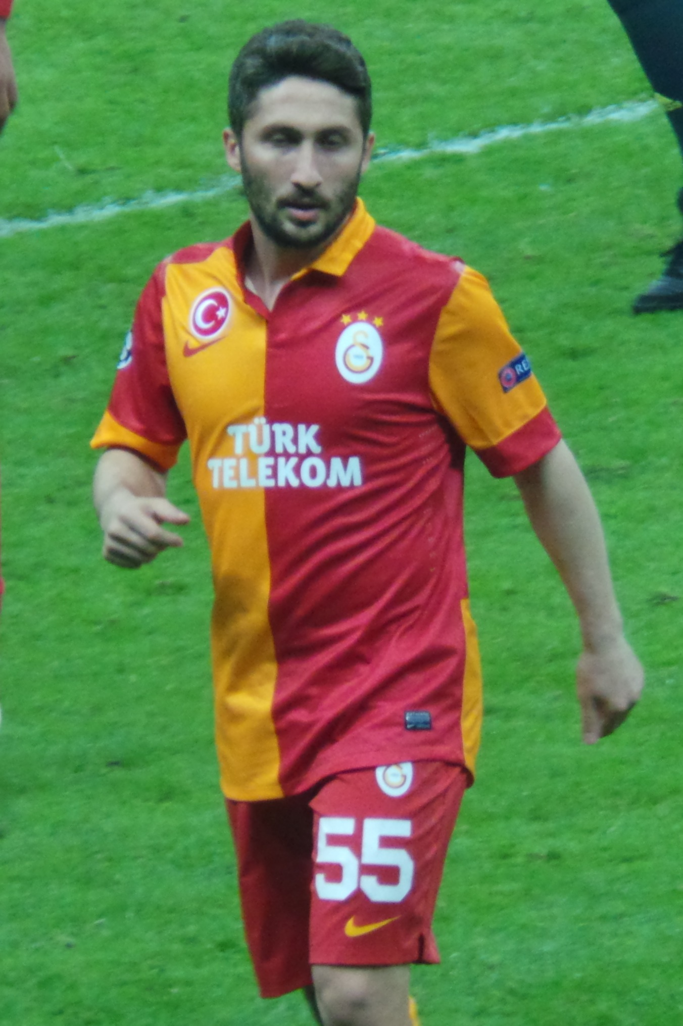 Sabri vs Real Madrid